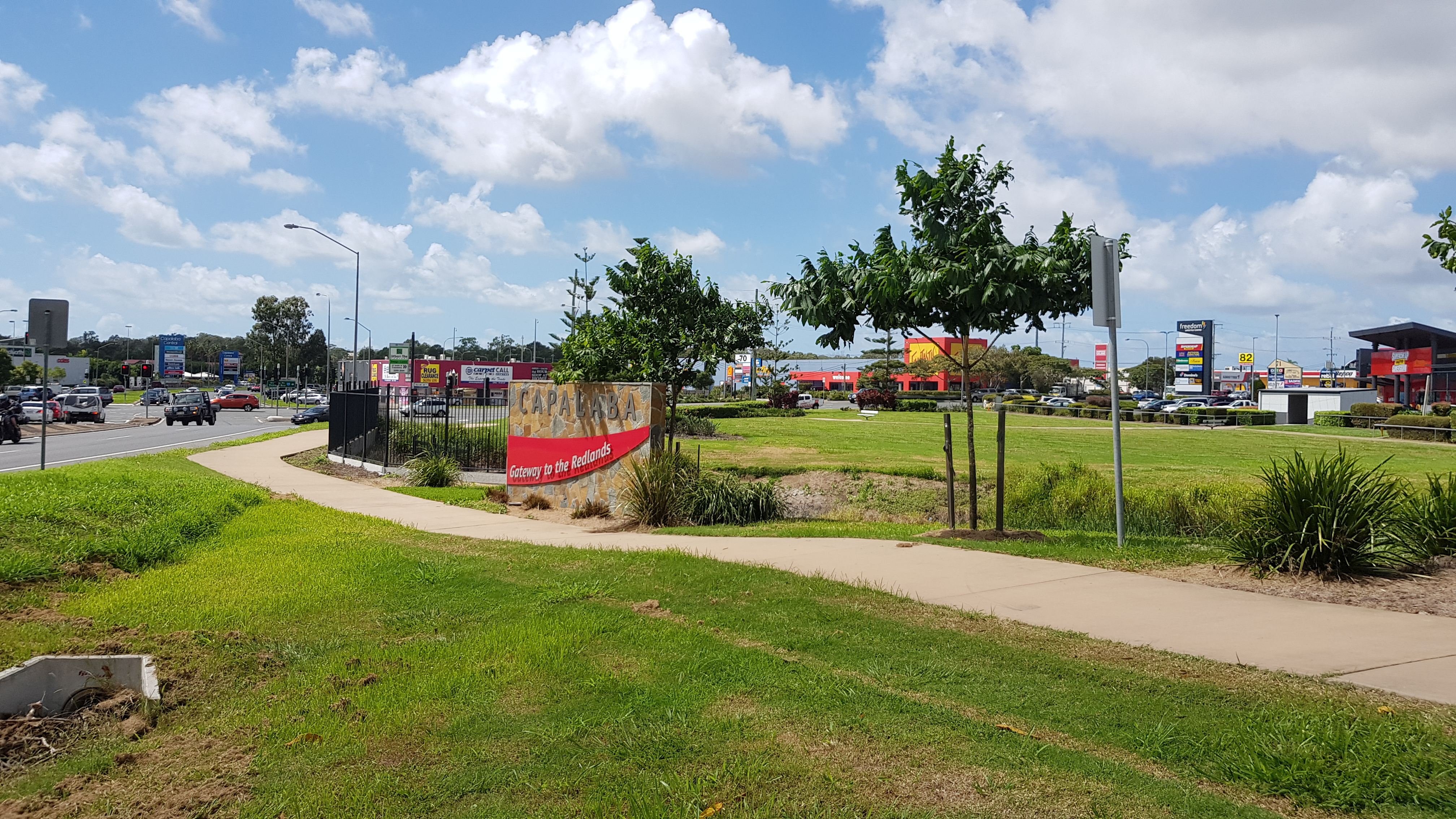 Intersection of Moreton Bay Rd and Redland Bay Rd at Capalaba, Redland City, Queensland, facing east